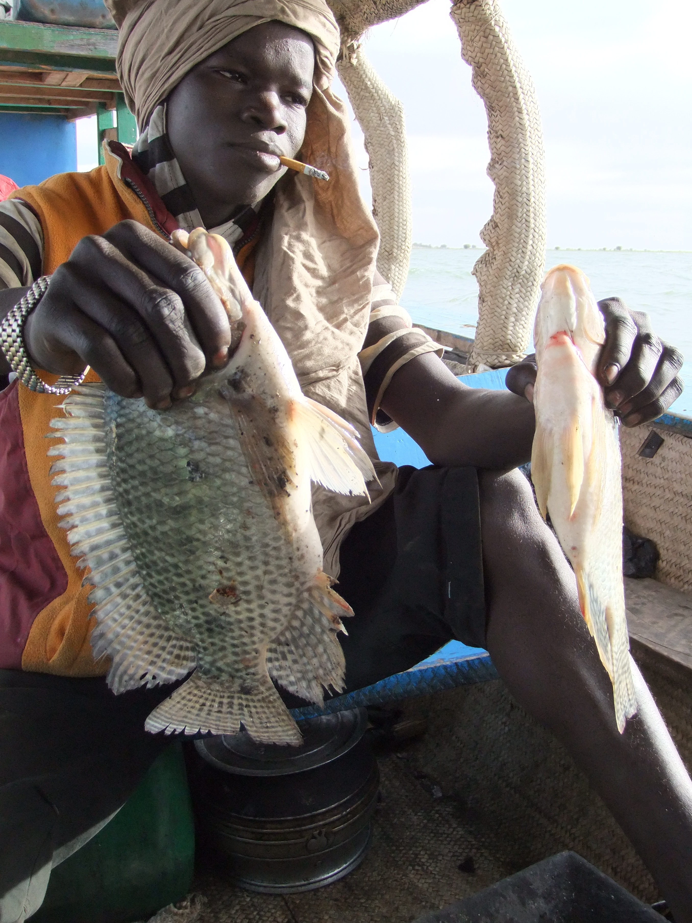 On a pinasse boat, Lac Dabo, Mali This is an image of "African people at work" from Mali